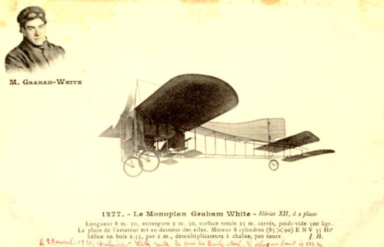 Claude Graham White, English aviation pioneer (1879-1959) with Blériot XII aircraft